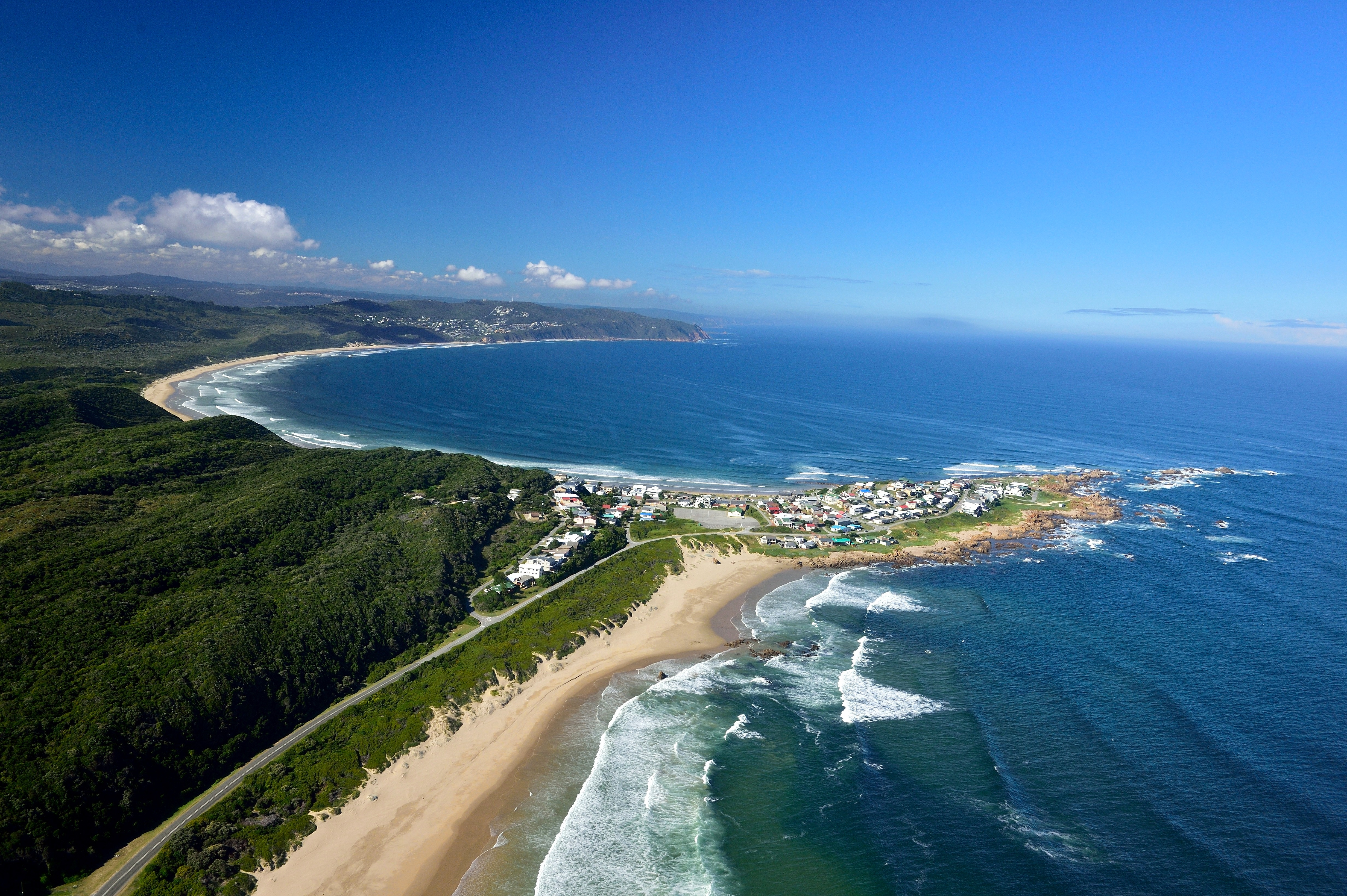 Buffelsbaai from the air with Brenton on Sea in the background